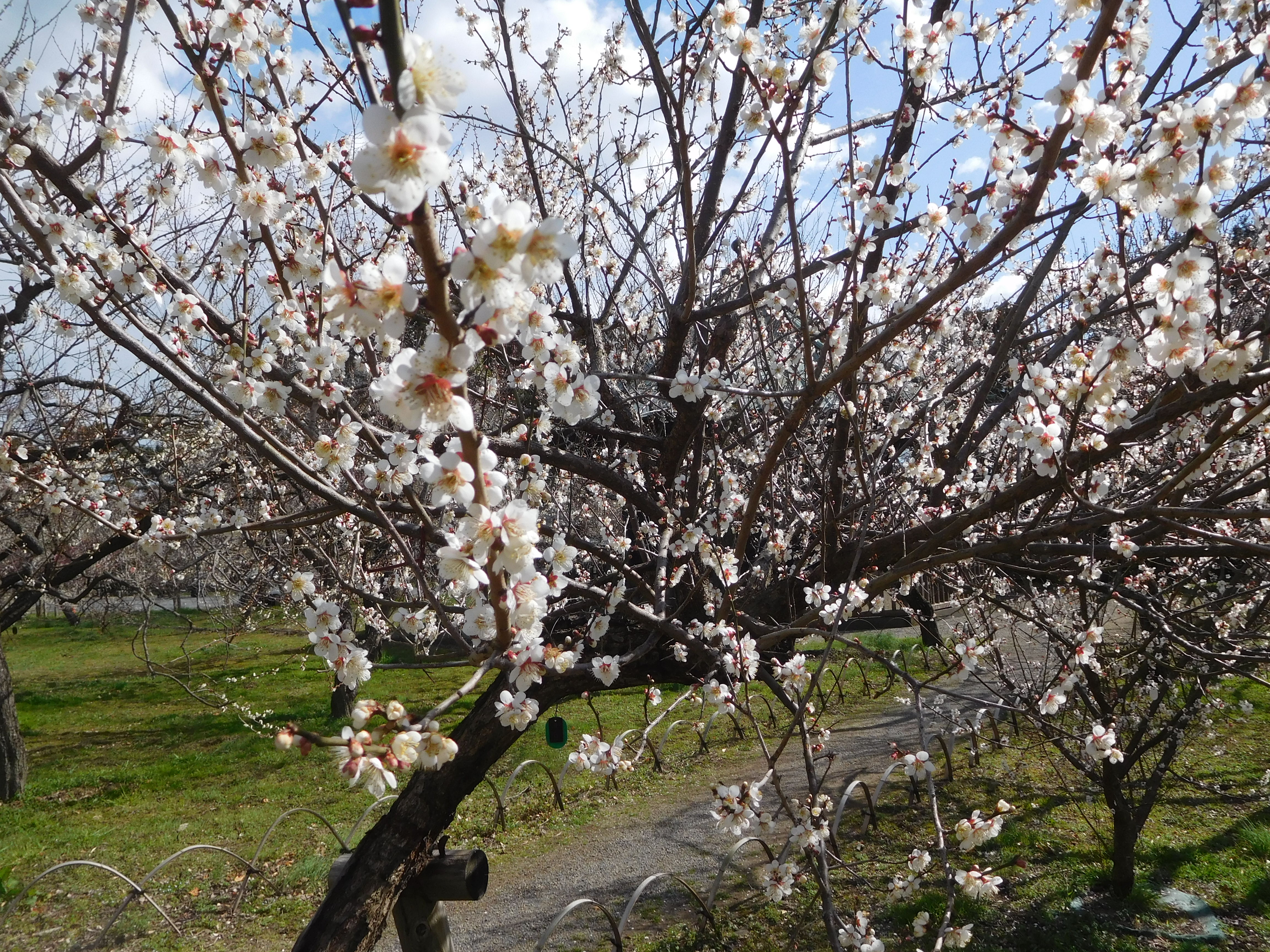 These are Prunus mume flowers at Kodokan, Mito, Ibaraki, Japan.